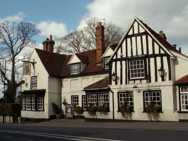 'The Griffin' inn, at the heart of Danbury village This attractive inn, which dates back to the 16th century, stands close to the parish church.